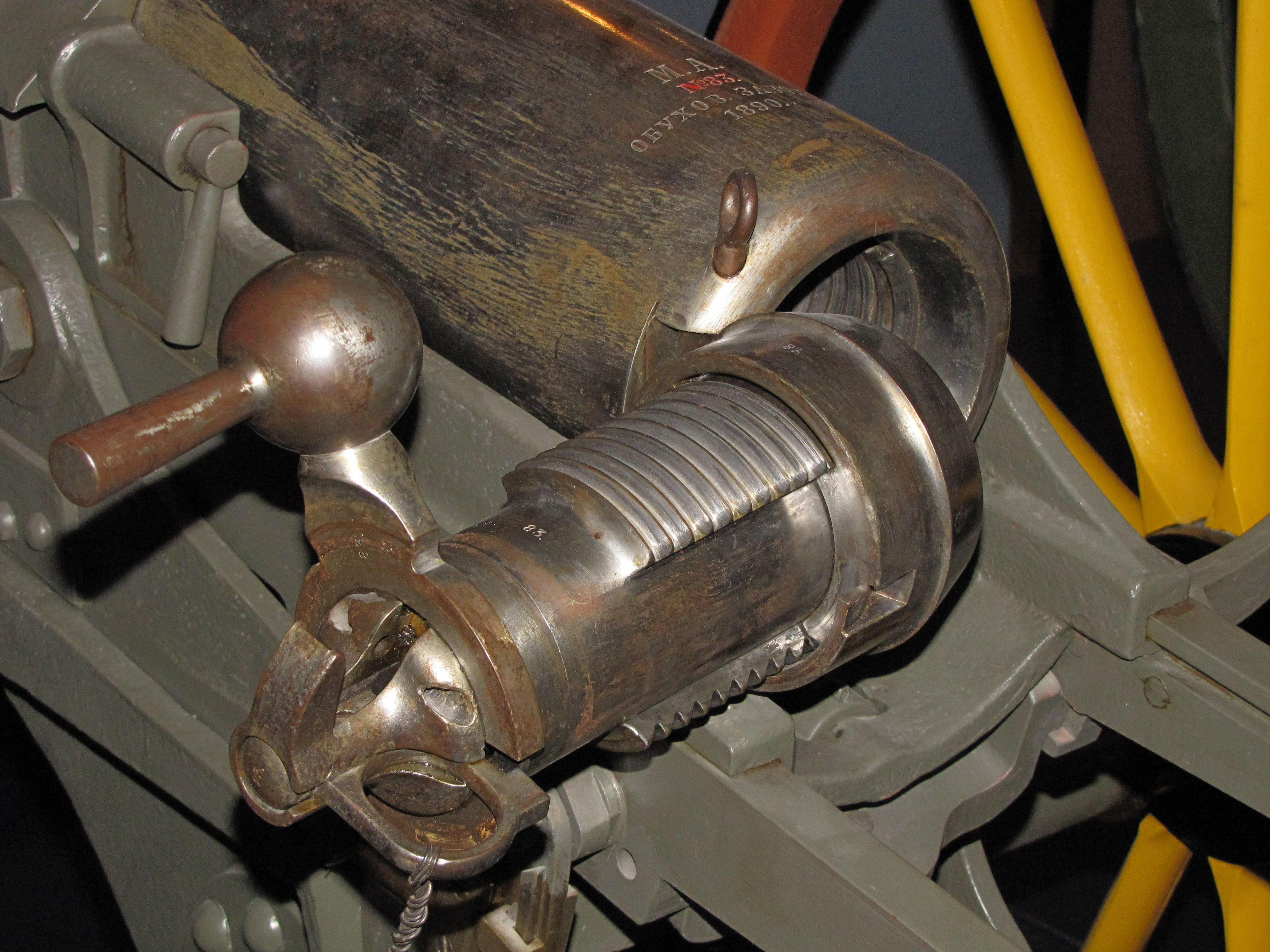 Imperial Russian 2.5 inch (63 mm) Baranovsky gun Hämeenlinna artillery museum.